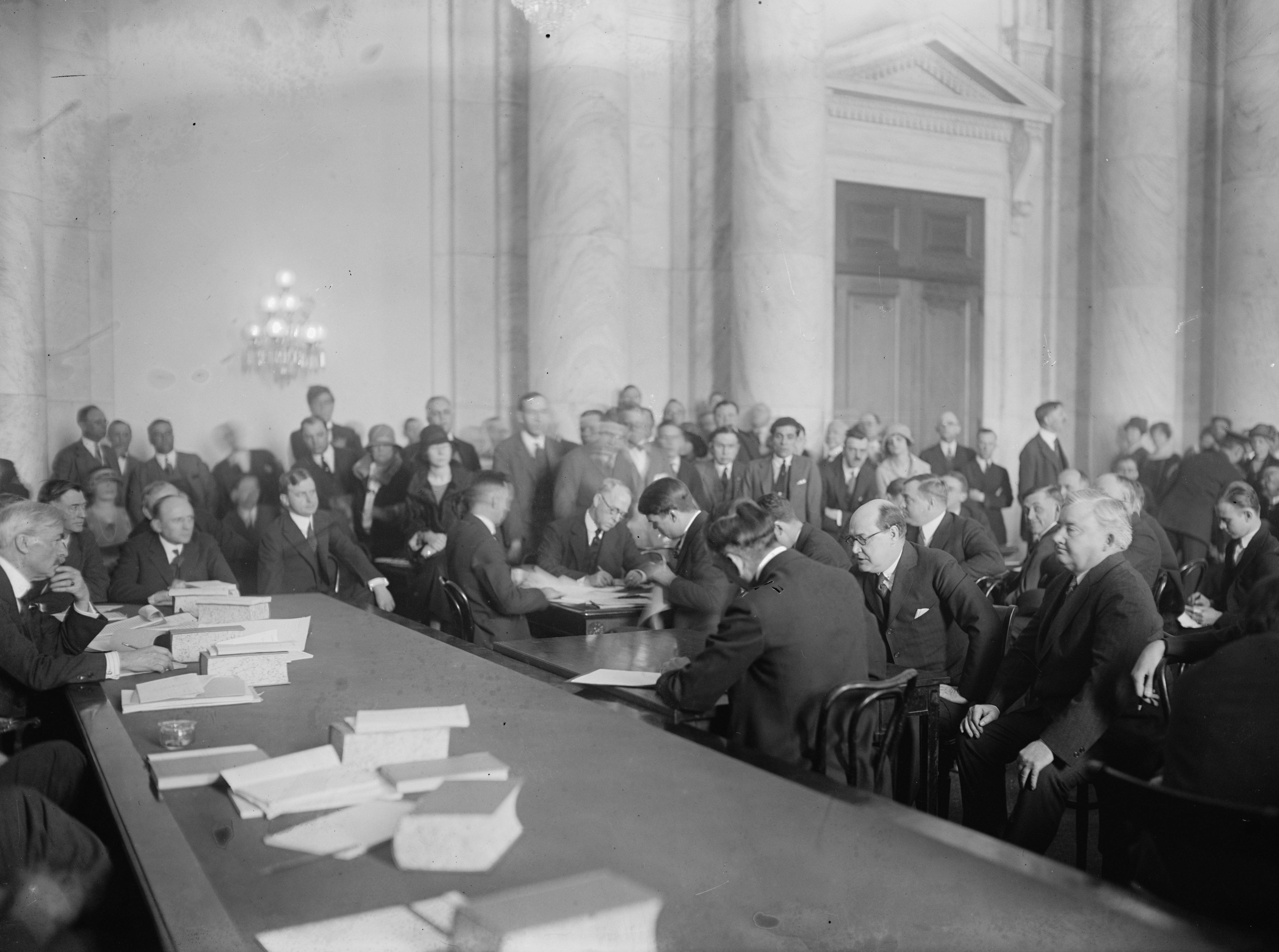 Title: Harry F. Sinclair & attys. on stand, 3/22/24 Abstract/medium: 1 negative : glass ; 5 x 7 in. or smaller